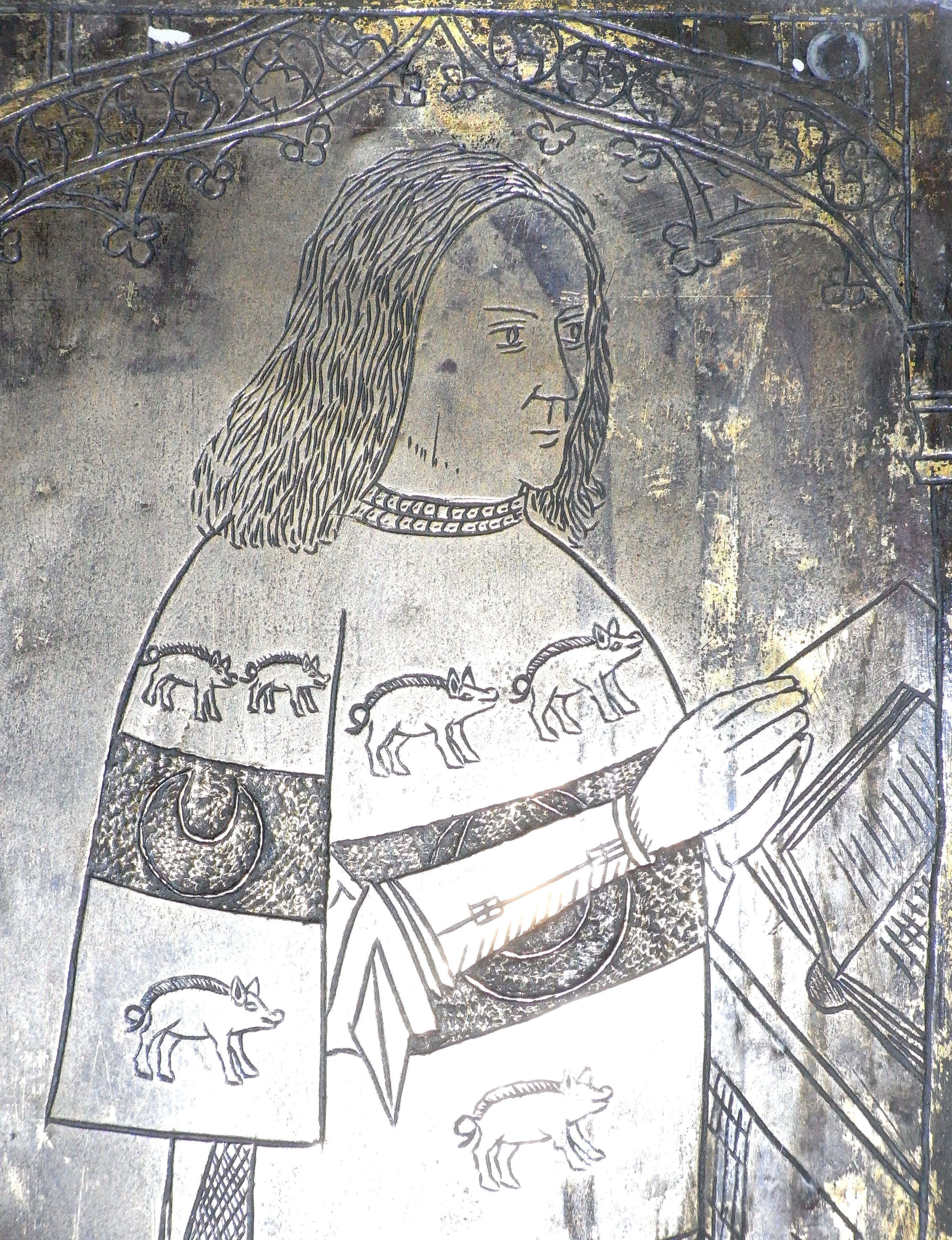 Sir William Huddesfield (died 1499) of Shillingford St George in Devon, Attorney-General to Kings Edward IV (1461-1483) and Henry VII (1485–1509). Detail from his monumental brass in Shillingford St George Church.